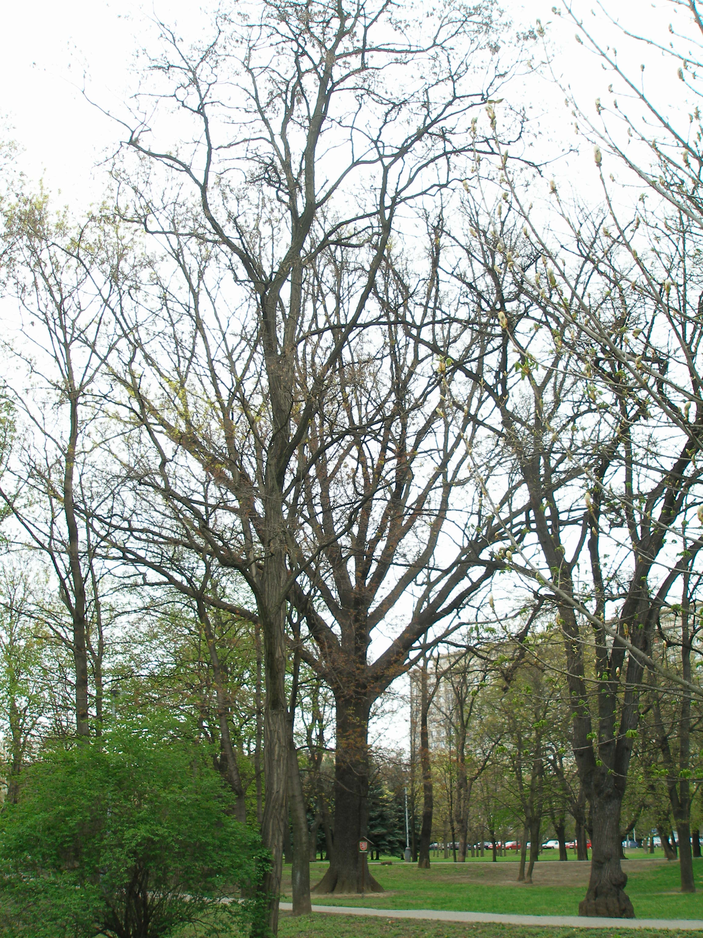 Quercus robur in Prague, Kobylisy (near Střelničná street).